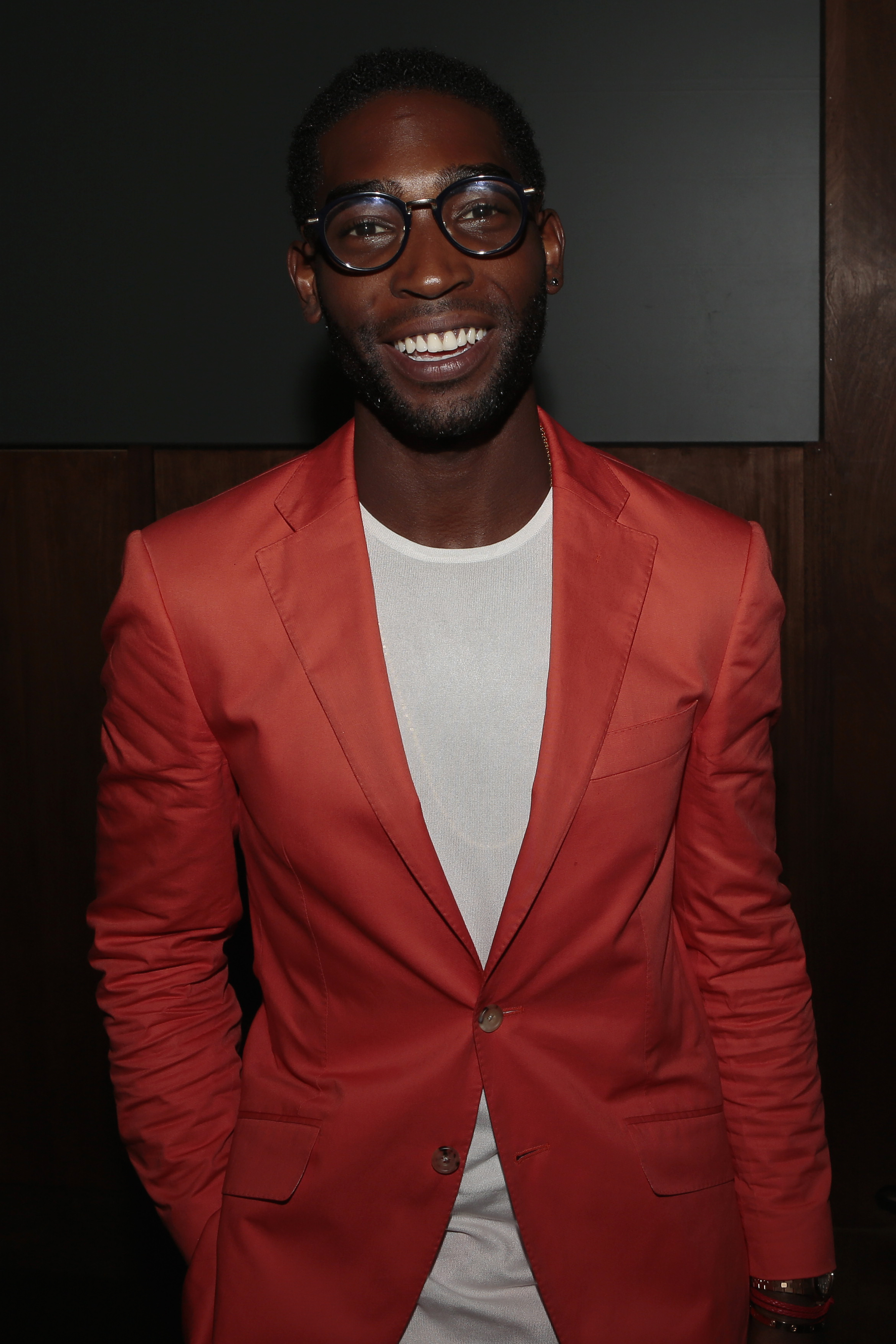 singer